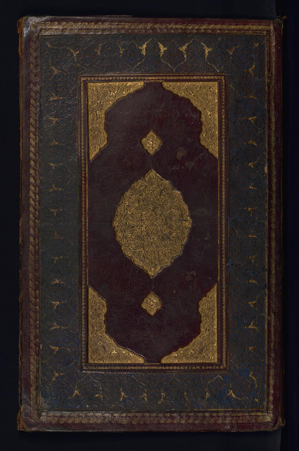 This non-original binding from Walters manuscript W.618 is largely attributable to the 10th century AH/AD 16th, with later additions. The binding is composed of brown leather (incorrectly bound with the flap on the wrong side and folded back on itself), and has a central lobed oval and pendants with gold-brushed scroll and floral design. The binding has a blue outer margin.